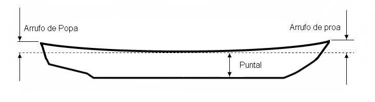 Sheer fore and aft (spanish)